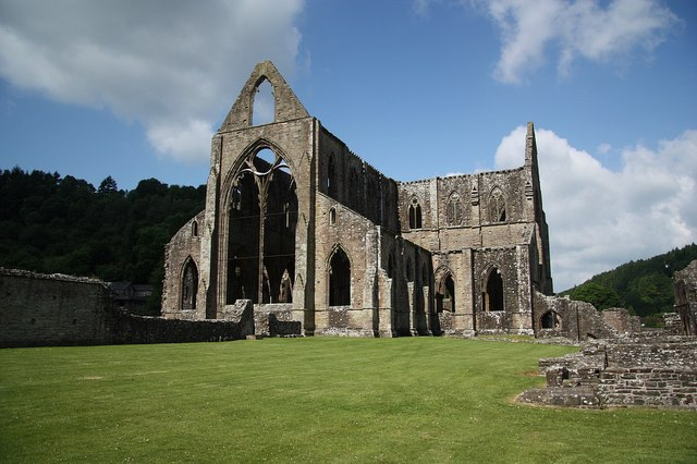 Tintern Abbey Picturesque ruins of Tintern Abbey in the Wye valley, founded 1131, dissolved 1536